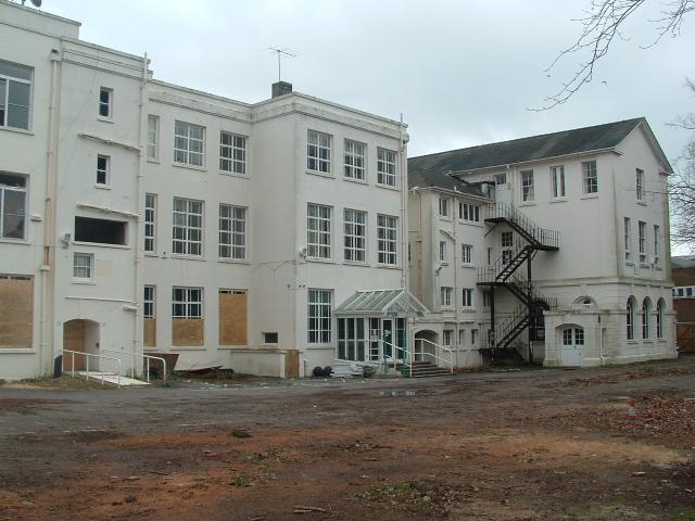 Old college buildings at the Le-saint Union college